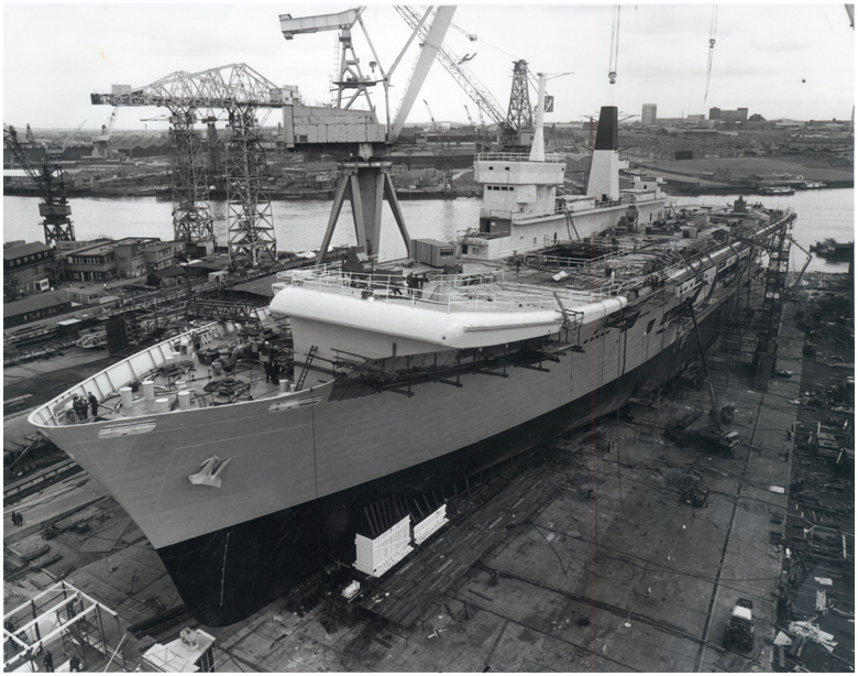 HMS Ark Royal was the former flagship of the Royal Navy. One of three Invincible class aircraft carriers she was affectionately known as The Mighty Ark. Her keel was laid by Swan Hunter at Wallsend on 7th December 1978 and she was launched on 20th June 1981 and completed in 1985. Major deployments included the Bosnian war (1993) and the invasion of Iraq (2003). More recently, she assisted in the repatriation of air travellers stranded by the 2010 volcanic eruption. Most photographs and images in this set are taken from the Swan Hunter Collection held by Tyne and Wear Archives Service. Ref: TWAS:ds-swh-4-ph-5-109-18 (Copyright) We're happy for you to share this digital image within the spirit of The Commons. Please cite 'Tyne & Wear Archives & Museums' when reusing. Certain restrictions on high quality reproductions and commercial use of the original physical version apply though; if you're unsure please . To purchase a hi-res copy please quoting the title and reference number.